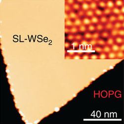 STM image of single layer WSe2 grown on HOPG. The inset shows the atomic resolution image taken on the SL-WSe2